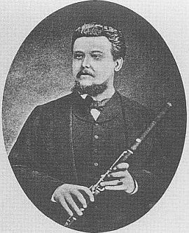 Jules Demersseman (1822-1866), french flutist and composer